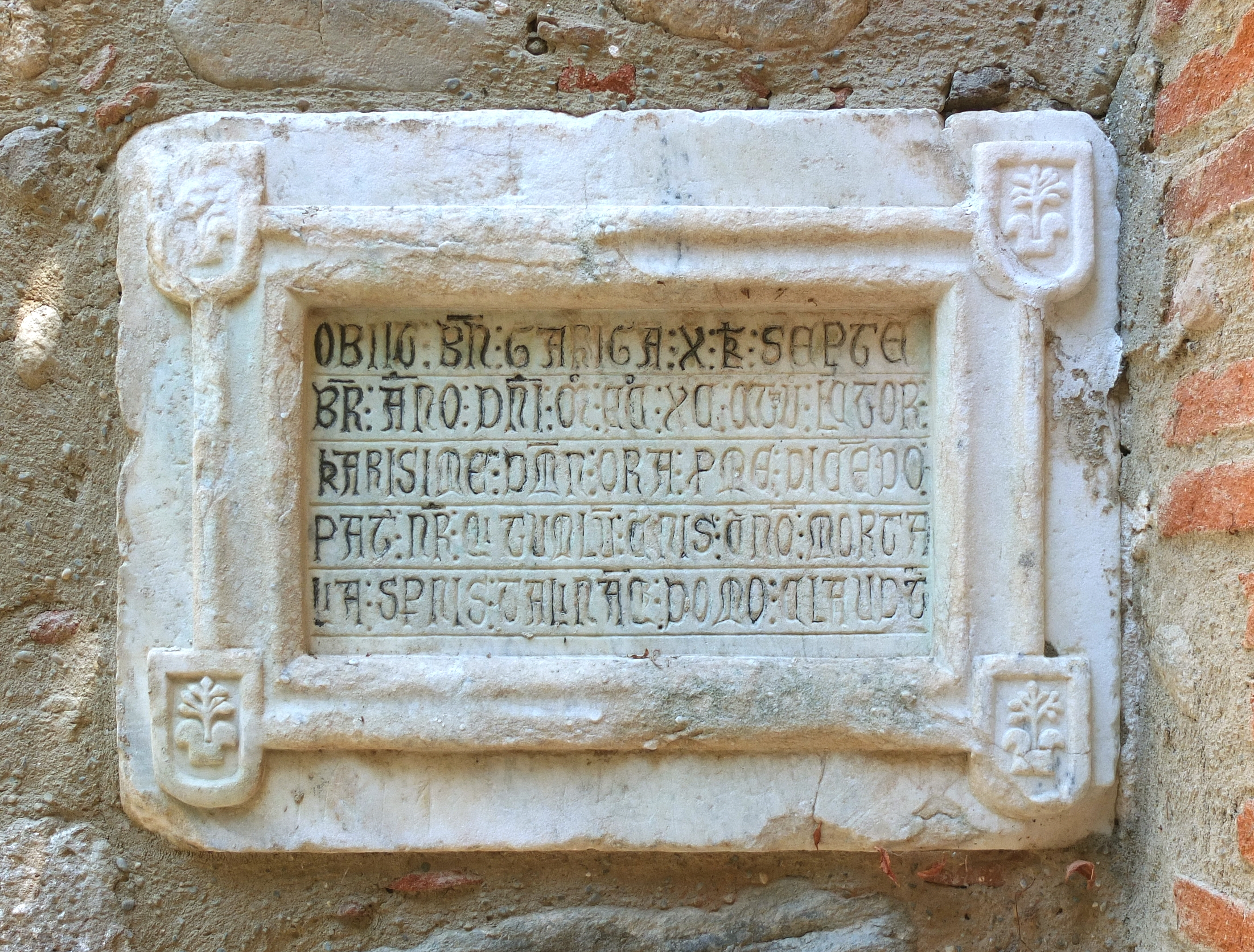 Epitaph for Bernat Gariga (+ 1298) at the chapel "Notre-Dame de Tanya", Laroque-des-Albères, France.